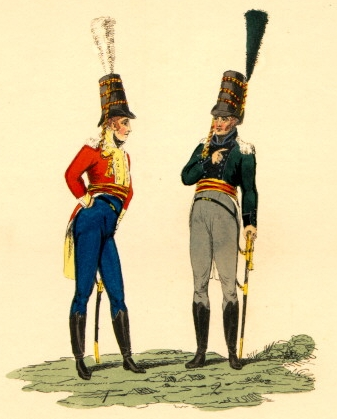 Uniforms from Det Norske Livregiment til Fods and Skiællandske Jæger Corps. The same colours were used for 1. Trondhjemske Infanteriregiment and Det Norske Jæger Corps. All this before the changes in 1810, despite the publication date of the book.